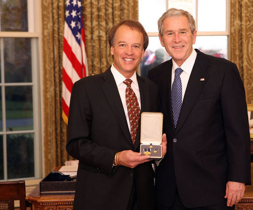 Ward Brehm receives the Presidential Citizens Medal from President Bush in the Oval Office in December 2008 for his humanitarian work in Africa.